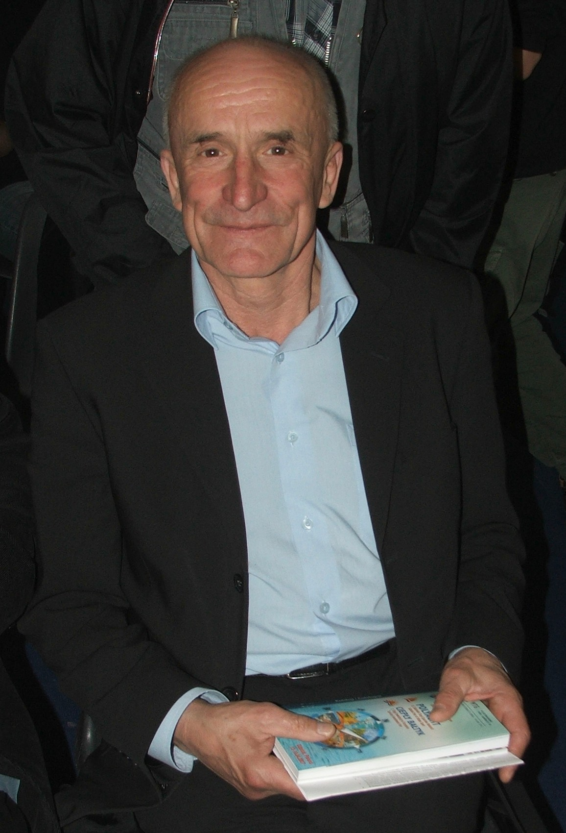 Zygmunt Choreń, designer of sailing ships, among others: SV Royal Clipper, STS Dar Młodzieży. The picture was taken during the first meeting of STS Pogoria sailors, Polyacht Fair, Gdańsk, Poland.